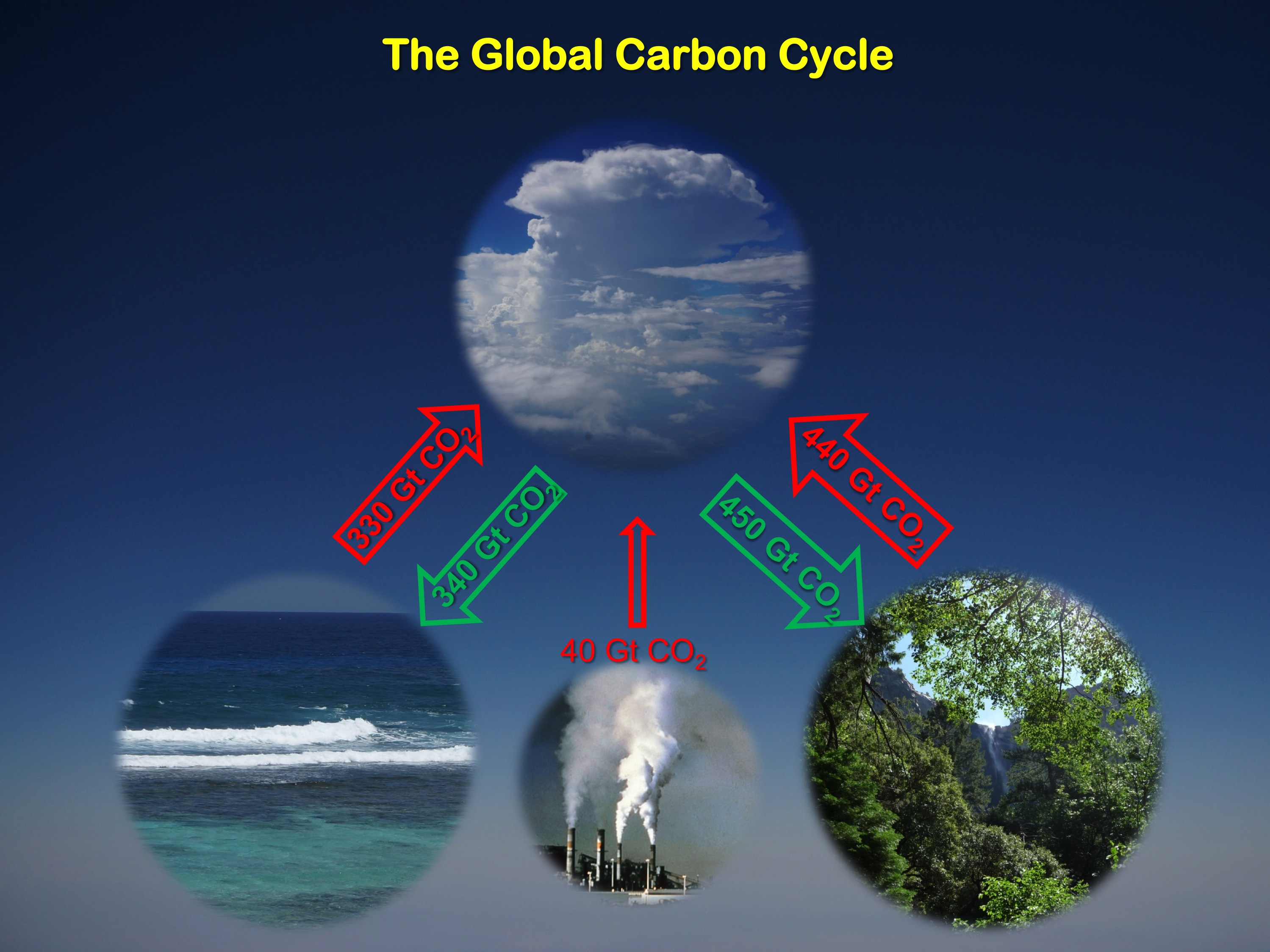 The ocean and land have continued to, over time, absorb about half of all carbon dioxide emissions, even as those emissions have risen dramatically in recent decades. It remains unclear if carbon absorption will continue at this rate. NASA author Hurtt